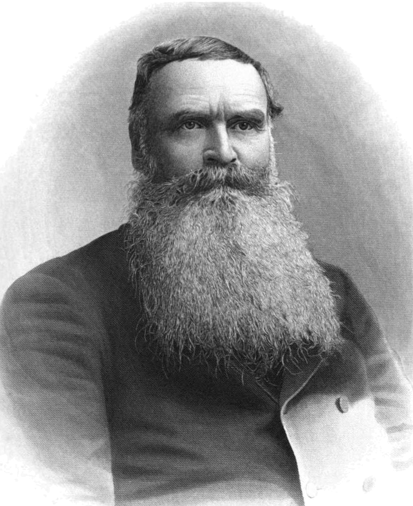 Bishop William Taylor